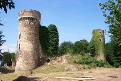 View on the main tower of the Château de la Faye